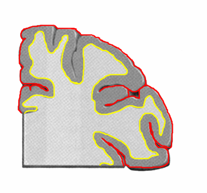 Human cerebral cortex, Brain MRI, Coronal slicess of a hemisphere with gray/white (yellow) and pial (red) surfaces overlaid.